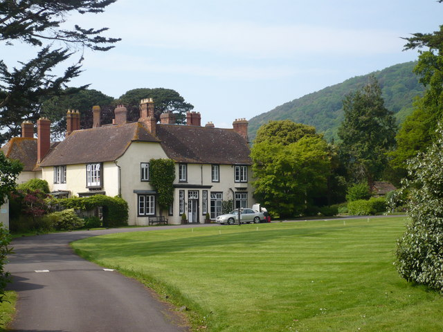 Approach to Holnicote House, Holnicote This is a holiday centre off the A39 near Selworthy village.